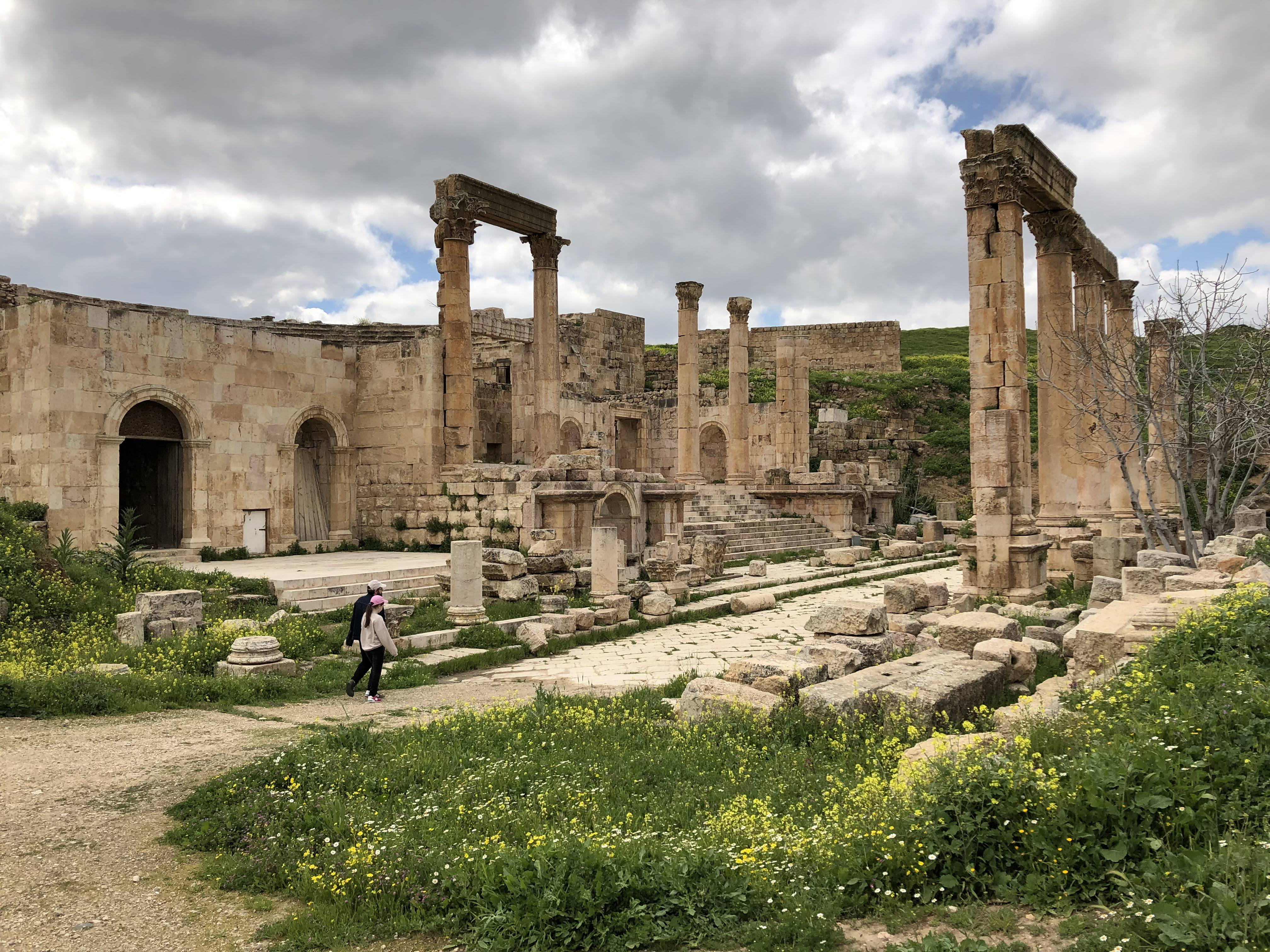 Gerasa northern theatre entrance